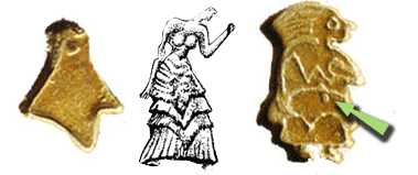 Picture showing the correspondance between the sign 44 of the Phaistos disk and the wrap the the godess